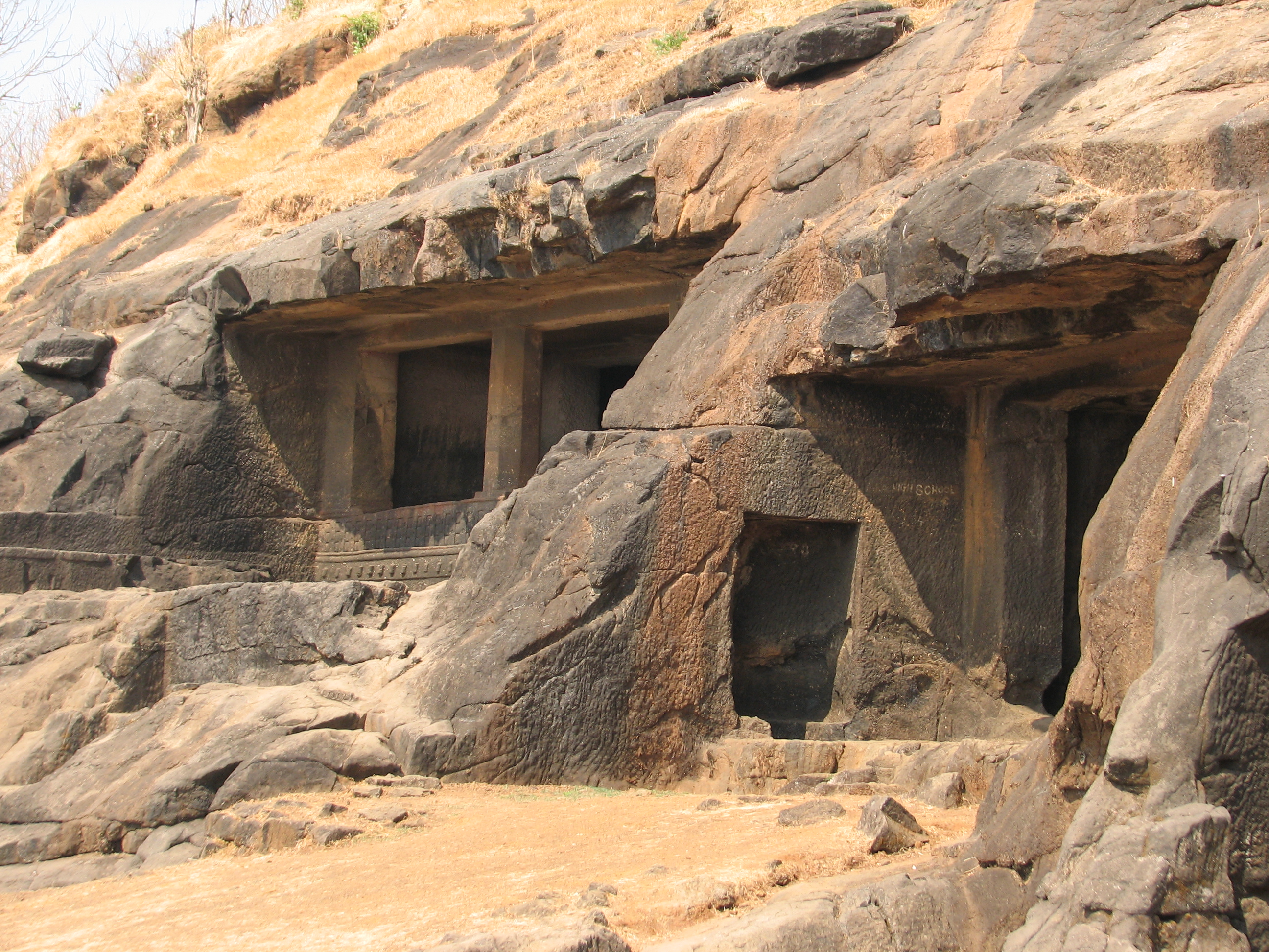 Photos of Kuda caves.